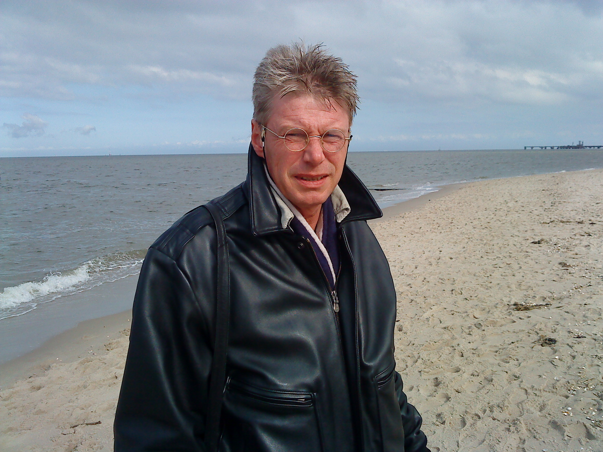 Ulf Kaack